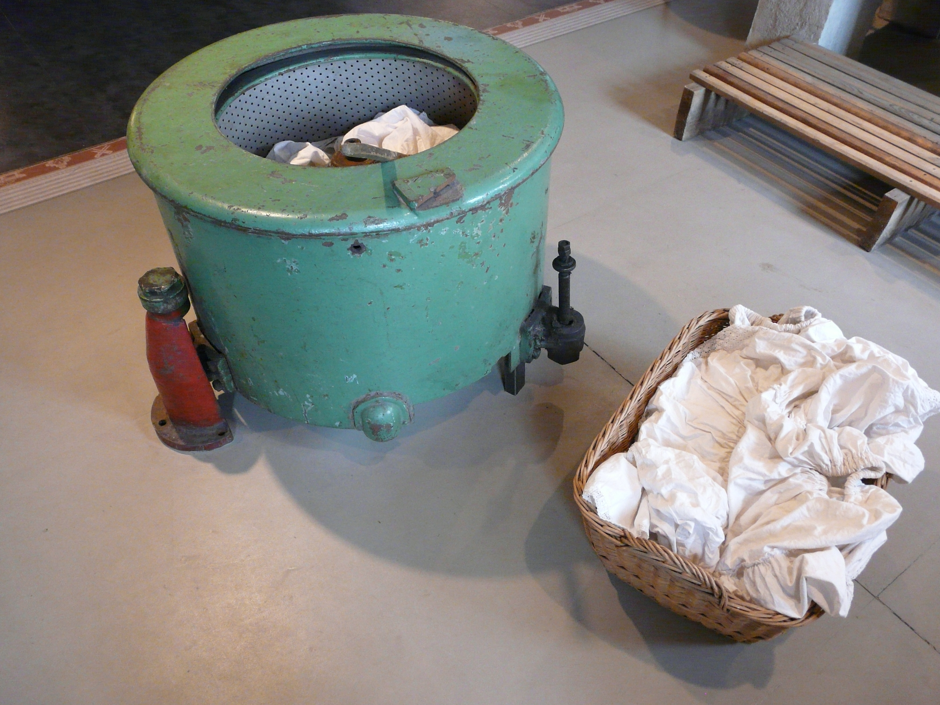 Katowice, Nikiszowiec. Muzeum Historii Katowic. From the collections: "U nos w doma na Nikiszu" (depictions of average households, pics 18-49) and "Woda i mydło najlepsze bielidło" (depictions of communal laundry, pics 5-17).